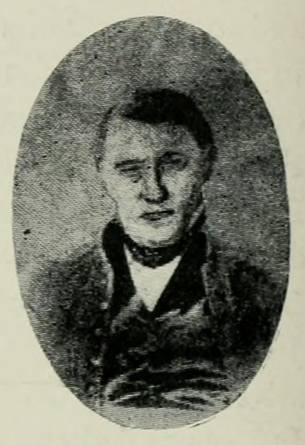 Nathan Boone, Missouri business person, delegate to Missouri constitutional convention, member of the 1st Regiment of Dragoons, and youngest son of Daniel Boone.